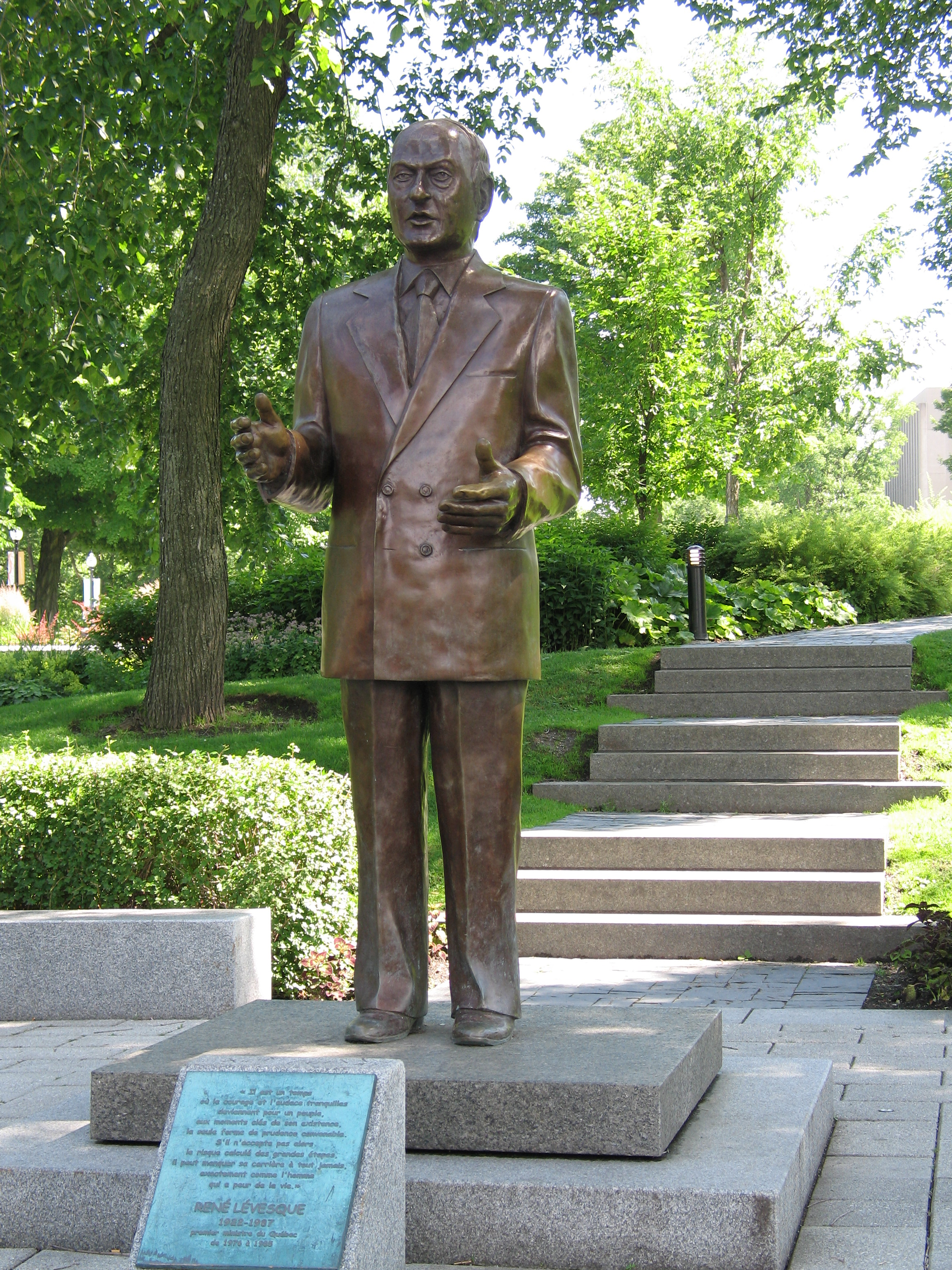 Statue of René Lévesque (1922-1987) in front of the National Assembly in Quebec City.